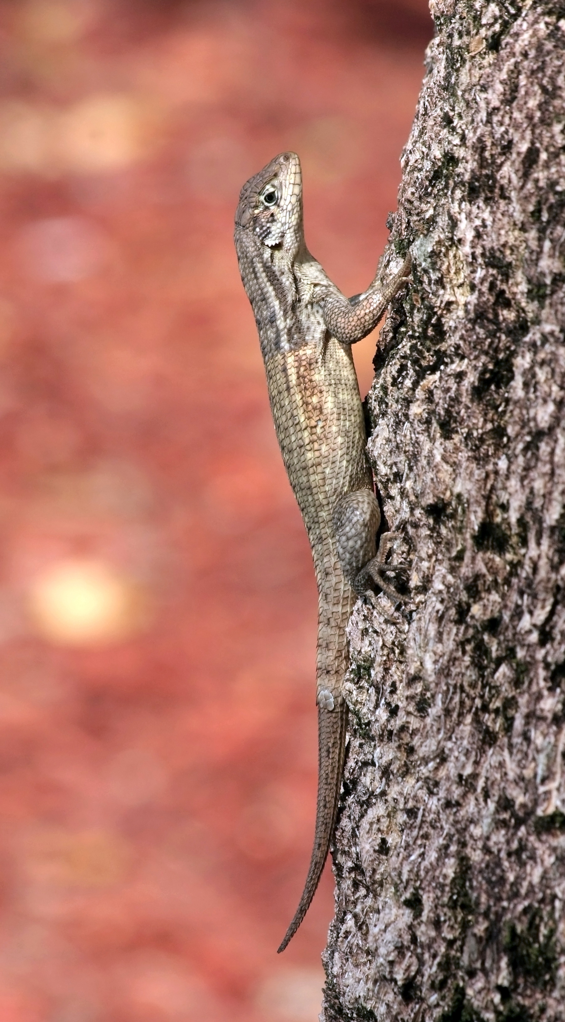 Northern curly-tail lizard hanging on a palm tree.